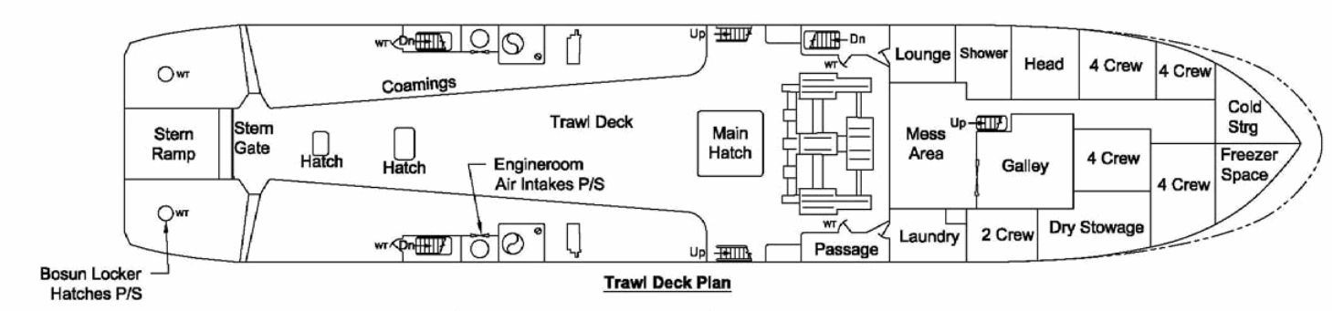 Plan view of FV Alaska Ranger trawl deck. (FO: fuel oil; FW: freshwater; MSD: marine sanitation device; P/S: port and starboard; Tk: tank; WT: watertight)